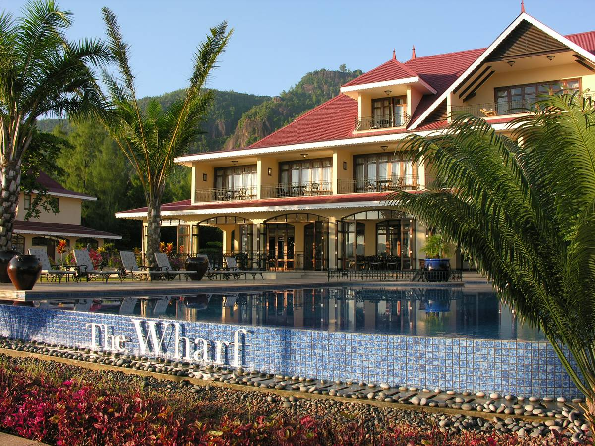 Hotel, Mahé Island, the Seychelles.